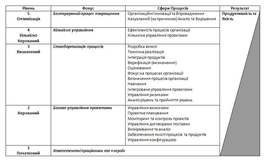 Capability Maturity Model